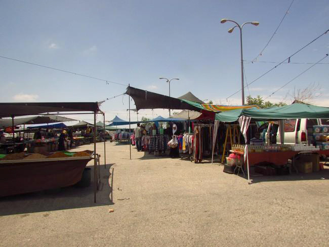 Market - Umm al-Fahm